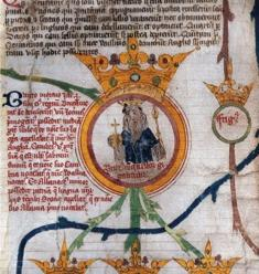 Brutus of Troy, the mythological founder of London.